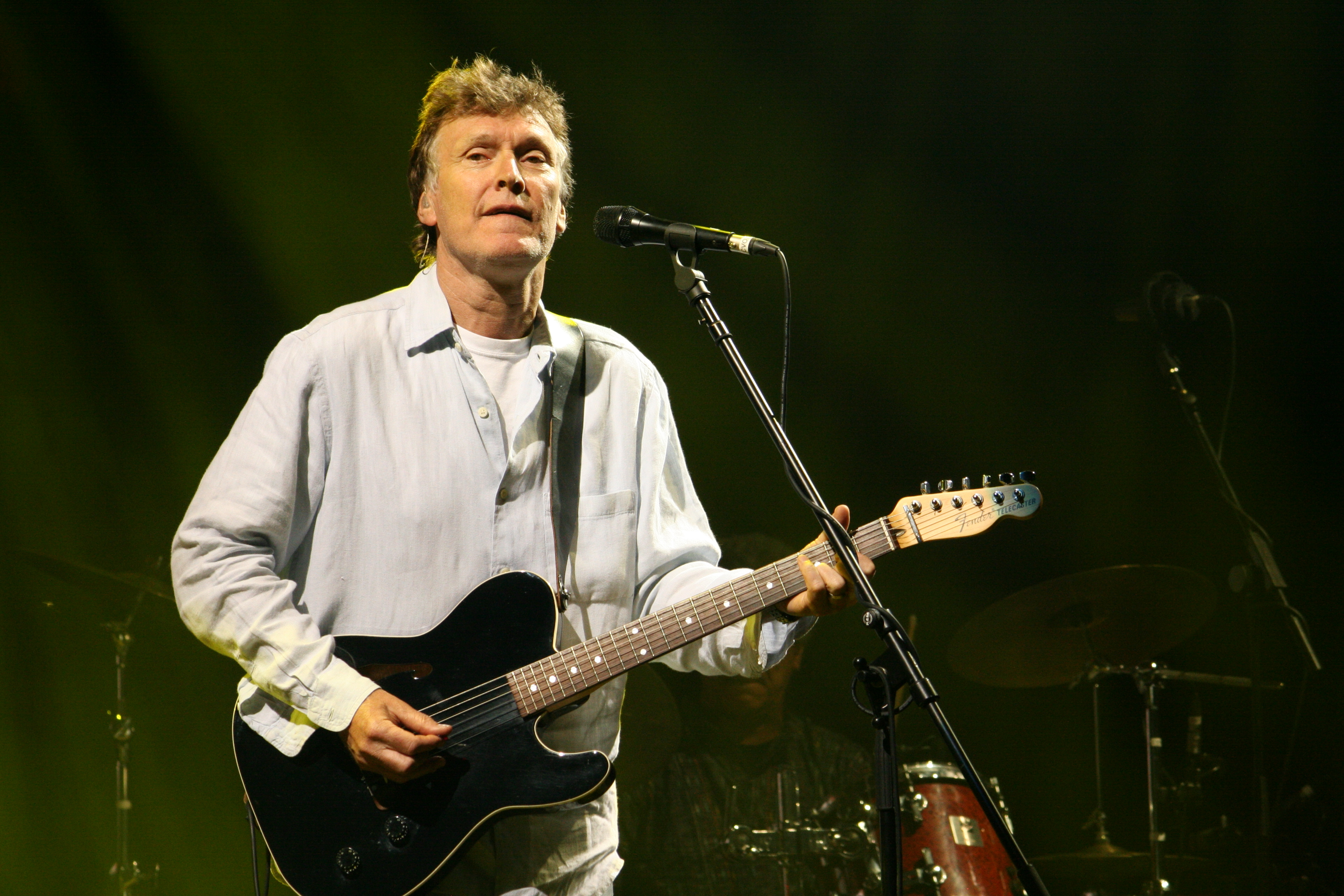 Steve Winwood Cropredy Festival, August 13 2009 Māori: E waiata ana a Steve Winwood i te Cropredy Festival i rā tekau mā toru o Here-o-Pipiri i te tau 2009.